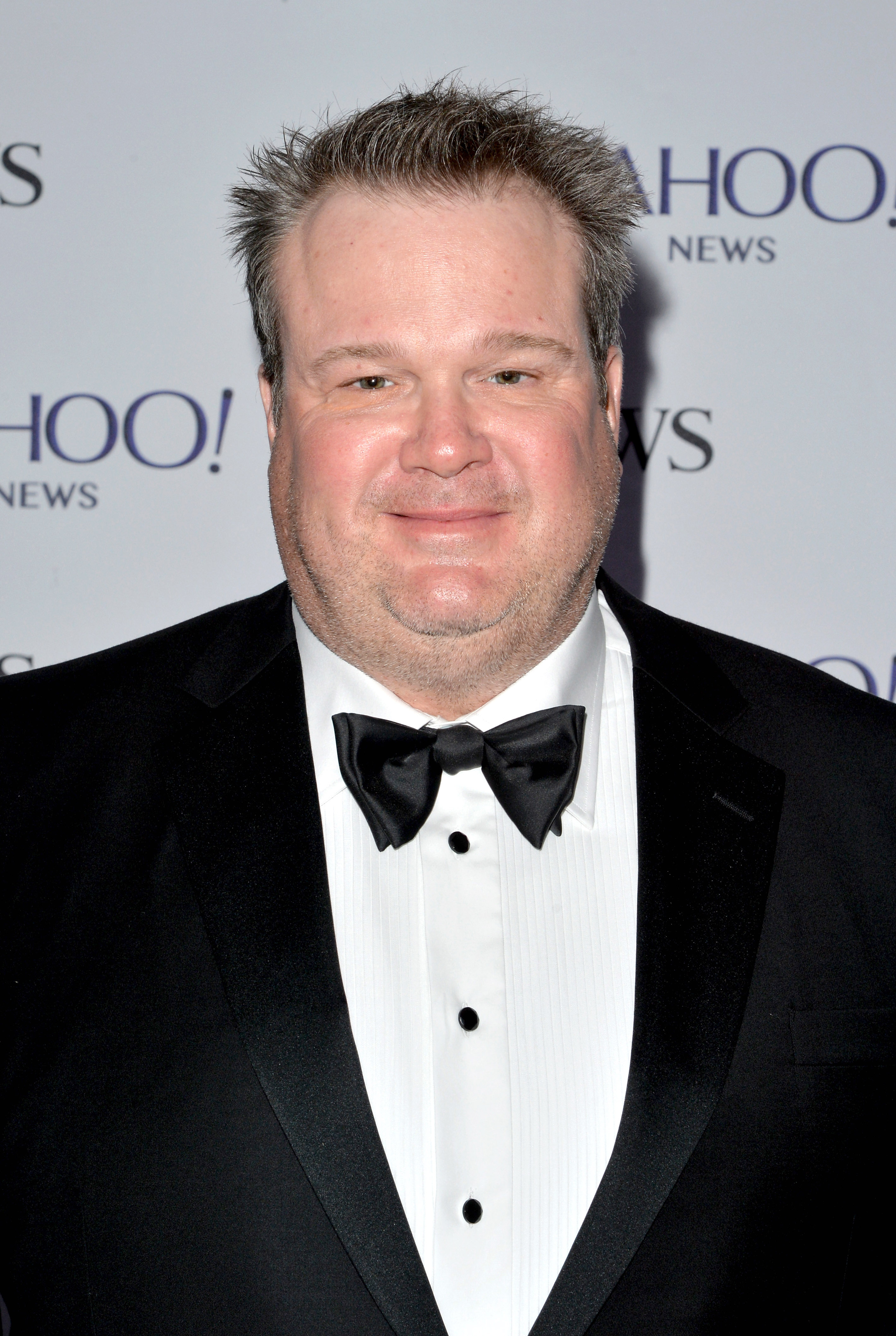 WASHINGTON, DC - MAY 03: Actor Eric Stonestreet attends the Yahoo News/ABCNews Pre-White House Correspondents' dinner reception pre-party at Washington Hilton on May 3, 2014 in Washington, DC. (Photo by Andrew H. Walker/Getty Images for Yahoo News)